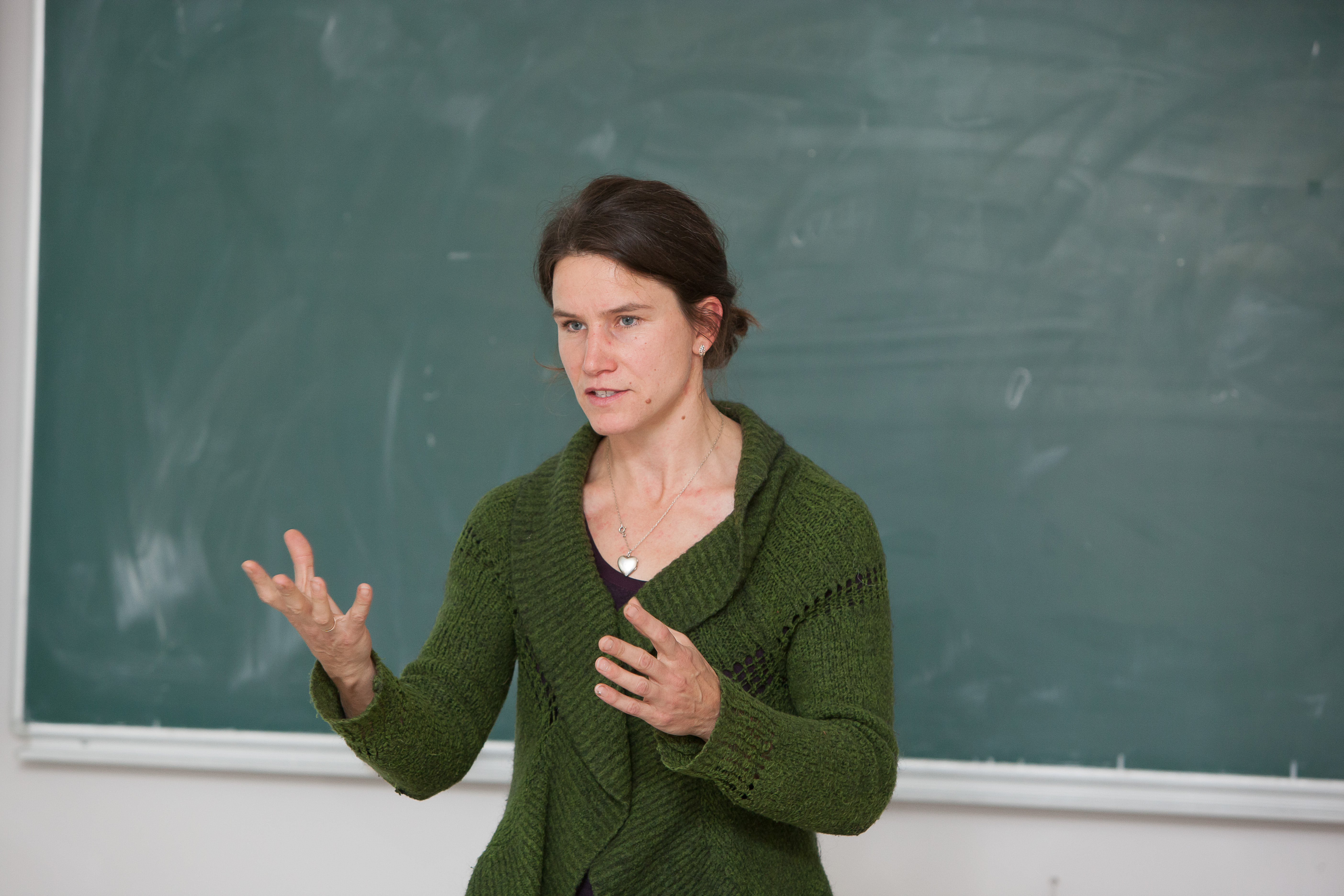 Aune Valk (2012 October)